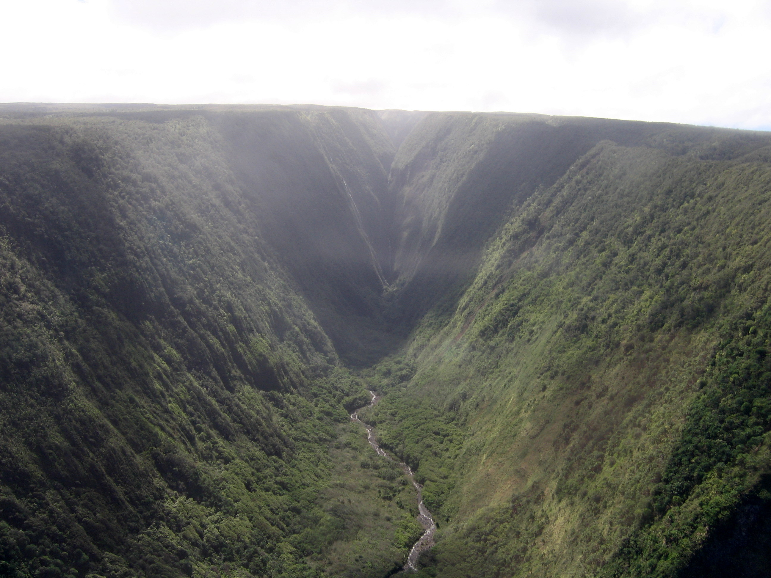 Verdant valley with stream of Kohala Volcano — on the Big Island of Hawaiʻi.